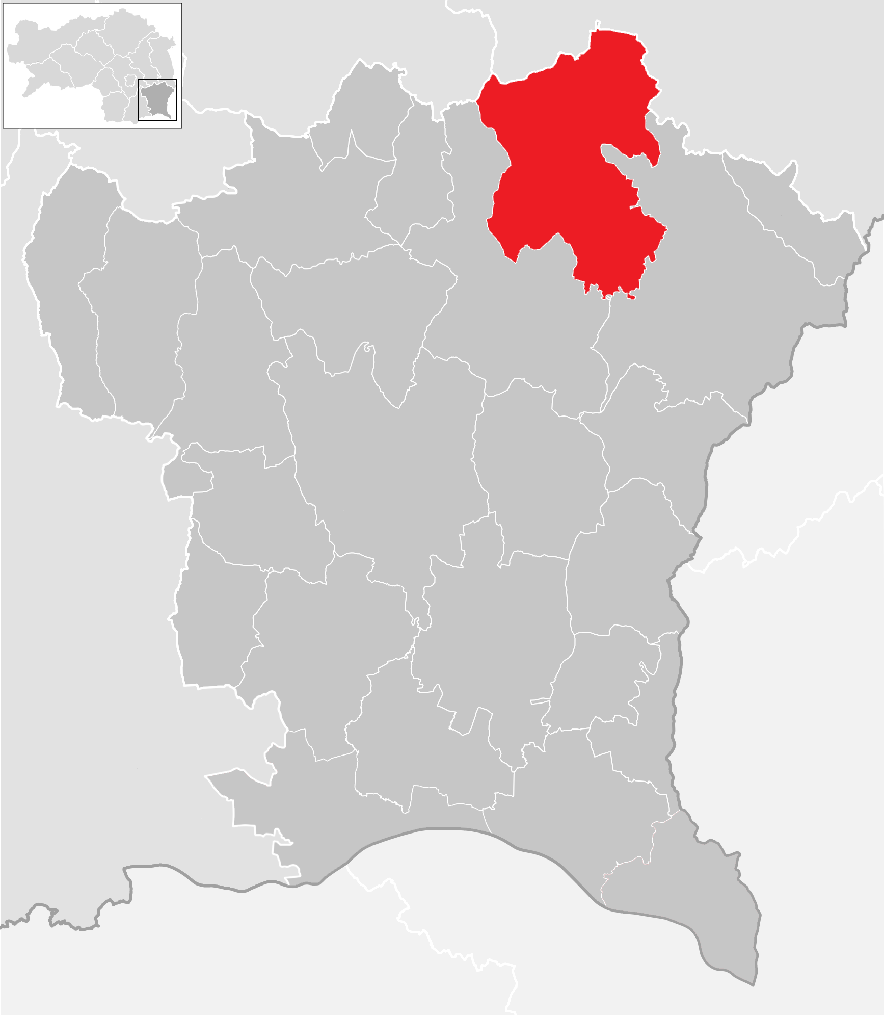 district Südoststeiermark